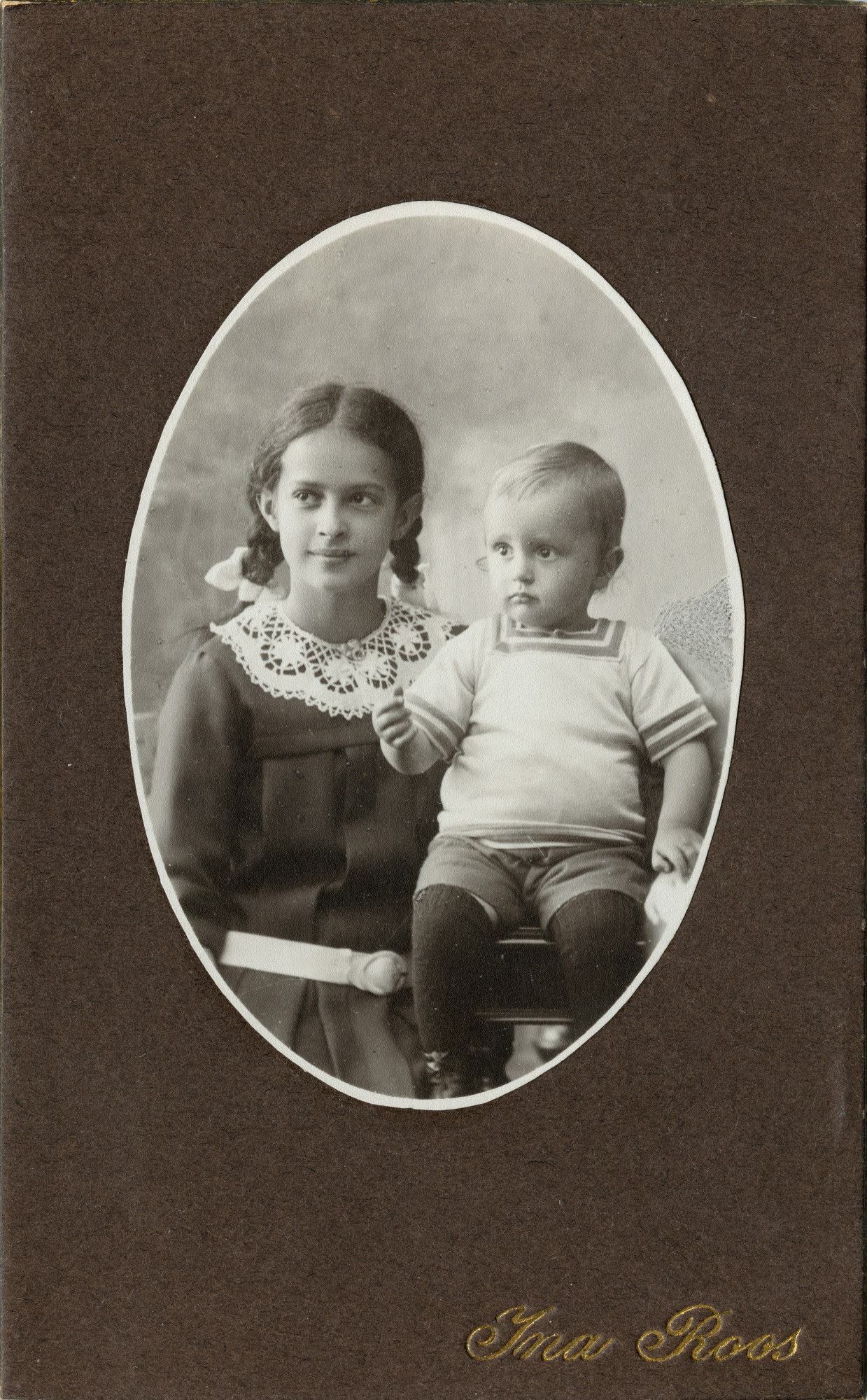 Photograph of Heidi (1902–1990) and Arne Runeberg (1912–1979).